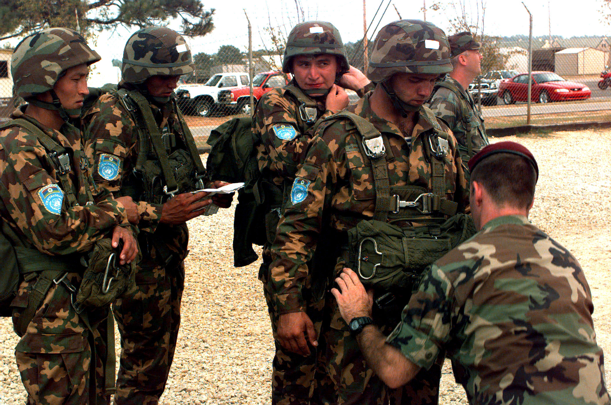 Uzbekistan soldiers have their parachute harnesses checked before a practice jump from a tower at Fort Bragg, N. C., on Sept. 8, 1997. The soldiers will take part in the longest distance airborne operation in history during Exercise Central Asian Battalion '97. Exercise Central Asian Battalion '97 involves more than 900 military personnel from Georgia, Kazakhstan, Kyrgyzstan, Latvia, Russia, Ukraine and Uzbekistan who are training with over 500 U.S. military troops to hone their skills in peacekeeping and humanitarian assistance. The exercise will enhance regional cooperation and increase interoperability training among NATO and Partnership for Peace nations. The exercise is being held in Shymkent, Kazakhstan, and Chirchik, Uzbekistan.